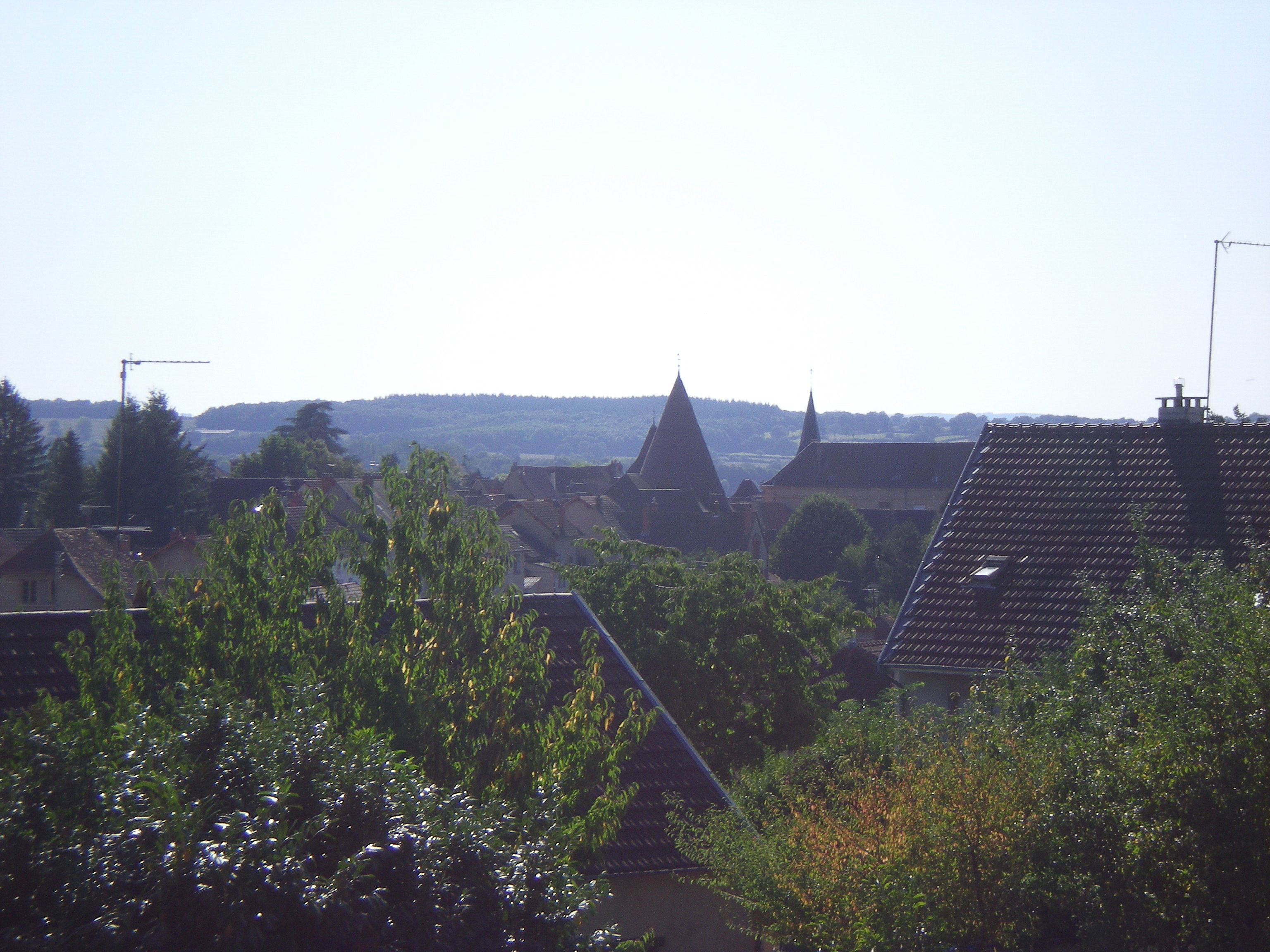 general view of town-center